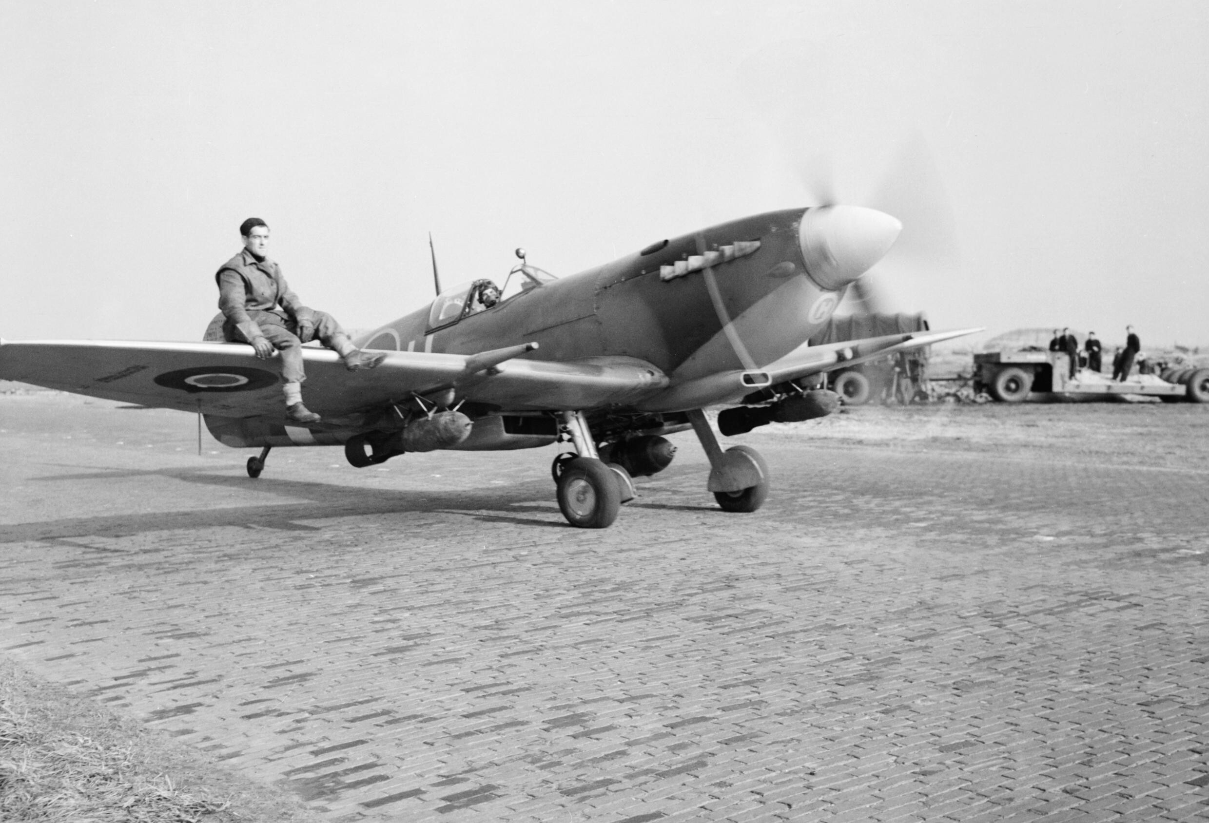 A Supermarine Spitfire Mk IXE of No. 412 Squadron RCAF, armed with a 250-lb GP bomb under each wing, taxies out for a sortie at Volkel, Holland, 27 October 1944. A Supermarine Spitfire Mark IXE of No. 412 Squadron RCAF, armed with a 250-lb GP bomb under each wing, taxies out for a sortie at B80/Volkel, Holland. A member of the ground crew is seated on the starboard wing to help the pilot to negotiate potholes, flooding and other obstructions on the airfield.